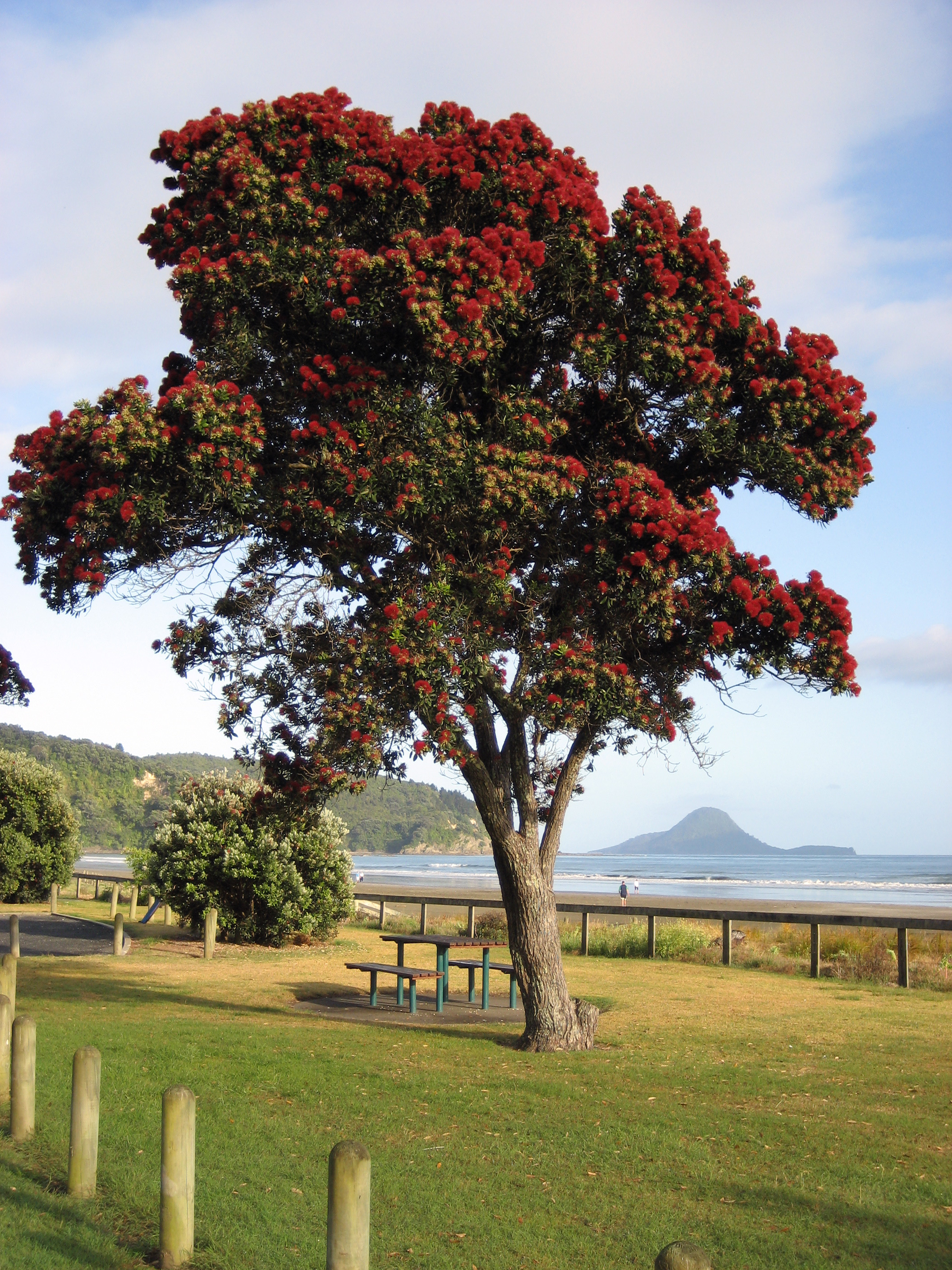 A fairly young Pōhutukawa (Metrosideros excelsa), in flower, at Ōhope, near Whakatāne, New Zealand. Whale Island in background.